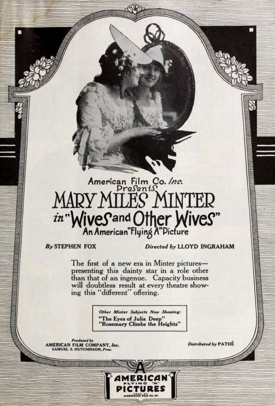 Advertisement for the American comedy drama film Wives and Other Wives (1918) with Mary Miles Minter, on page 11 of the December 21, 1918 Exhibitors Herald.